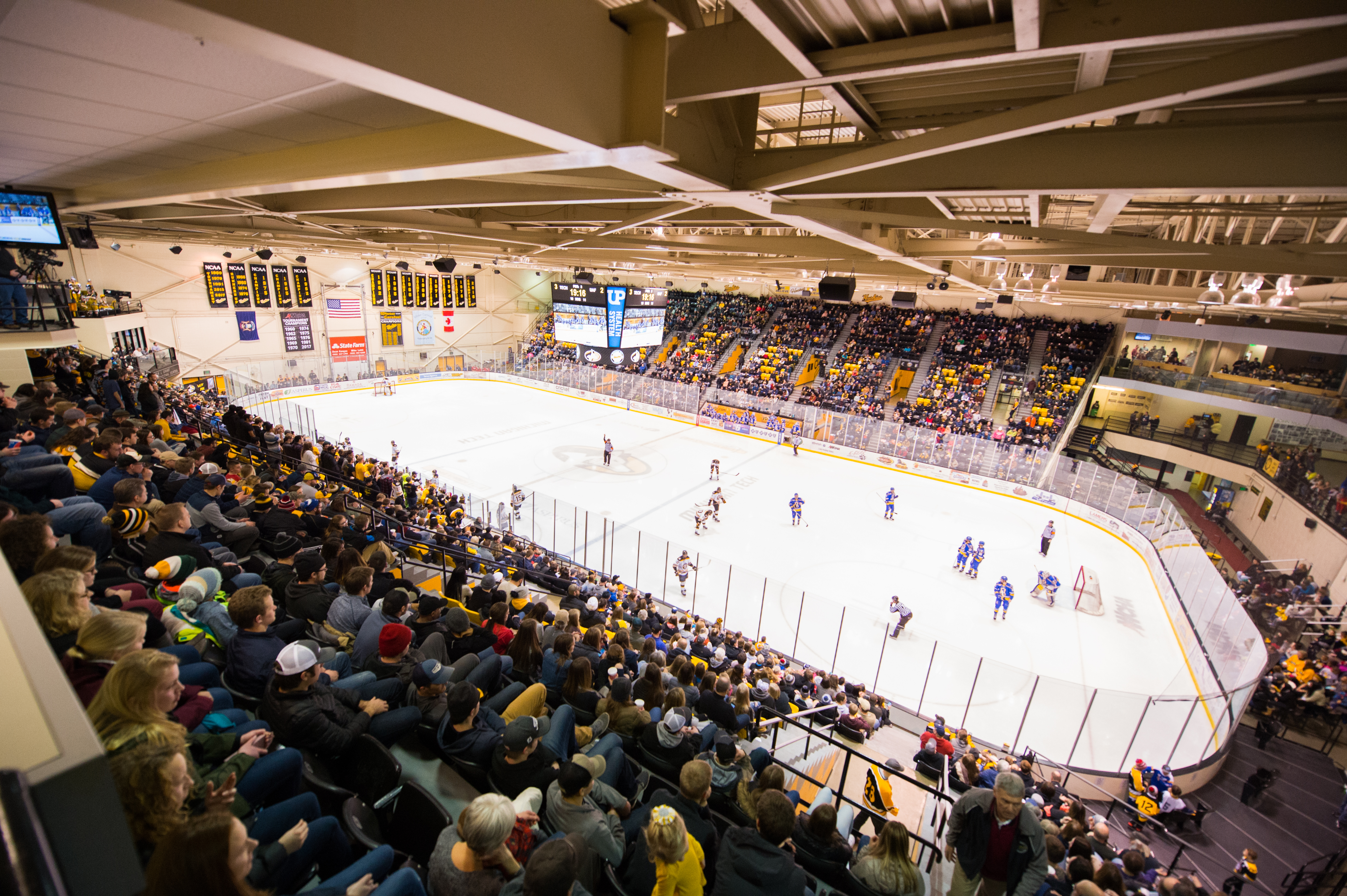 The Michigan Tech Huskies play hockey at the John MacInnes Student Ice Arena.